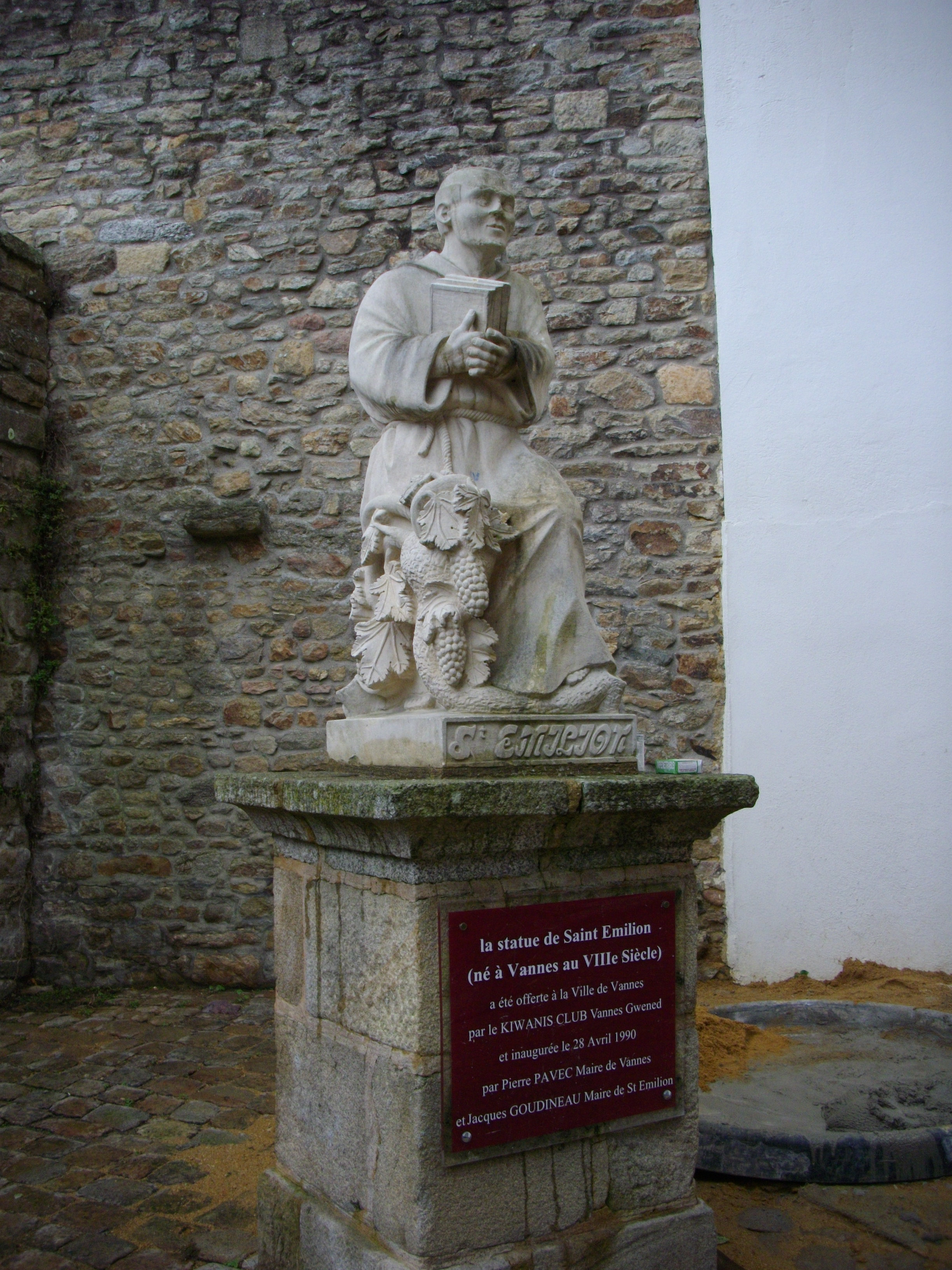 Statue of Saint Émilion in Vannes (France), unveiled in 1990